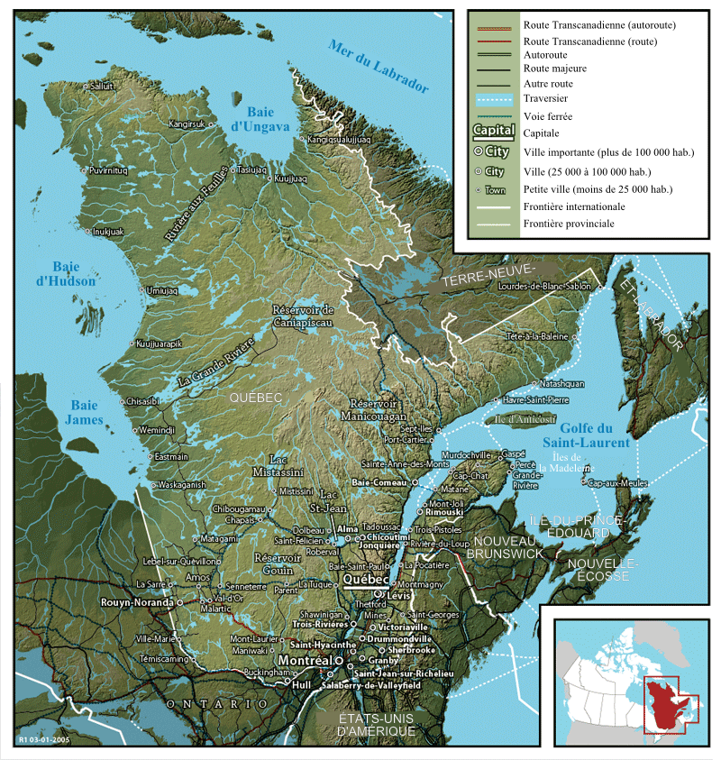 Map of Québec